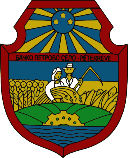 Emblem of Backo Petrovo Selo